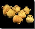 Tell Megiddo finding – from University of Tel-Aviv Excavations - The Megiddo Project This work is free and may be used by anyone for any purpose. If you wish to use this content, you do not need to request permission as long as you follow any licensing requirements mentioned on this page.